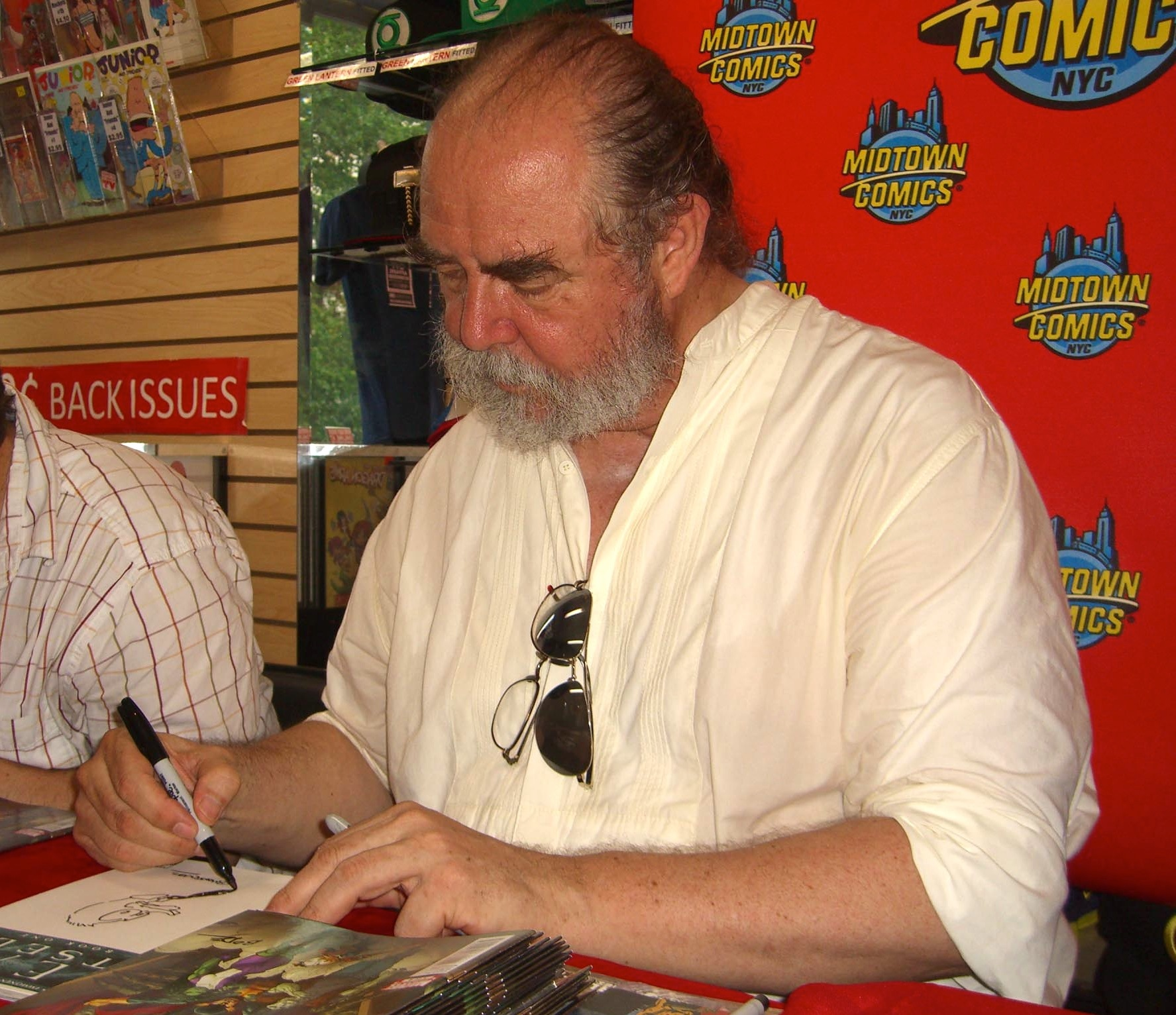 Comic book artist Michael Kaluta at a June 8, 2011 signing for Fear Itself: Fearsome Four #1 at Midtown Comics (Downtown branch) in Manhattan. Photographed by Luigi Novi. This photo is not in the public domain. It may, however, be used, modified and published for any purpose, free of charge, only if the photographer is properly credited, either by linking the photograph to this page, or with an easily visible credit to the photographer placed near the photo in each instance in which it is used. (See licensing information below.) Publication of this photo without this proper attribution constitutes copyright infringement. If you have any questions, you can contact me on my Wikipedia Talk Page.